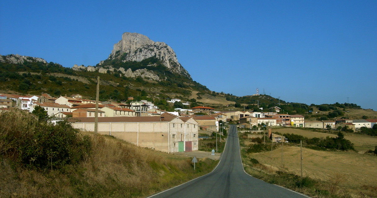 Meano (Spain)